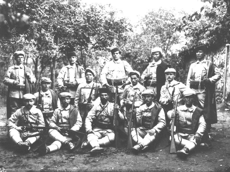 Cheta of bulgarian revolutionary Doncho Lazarov from IMARO